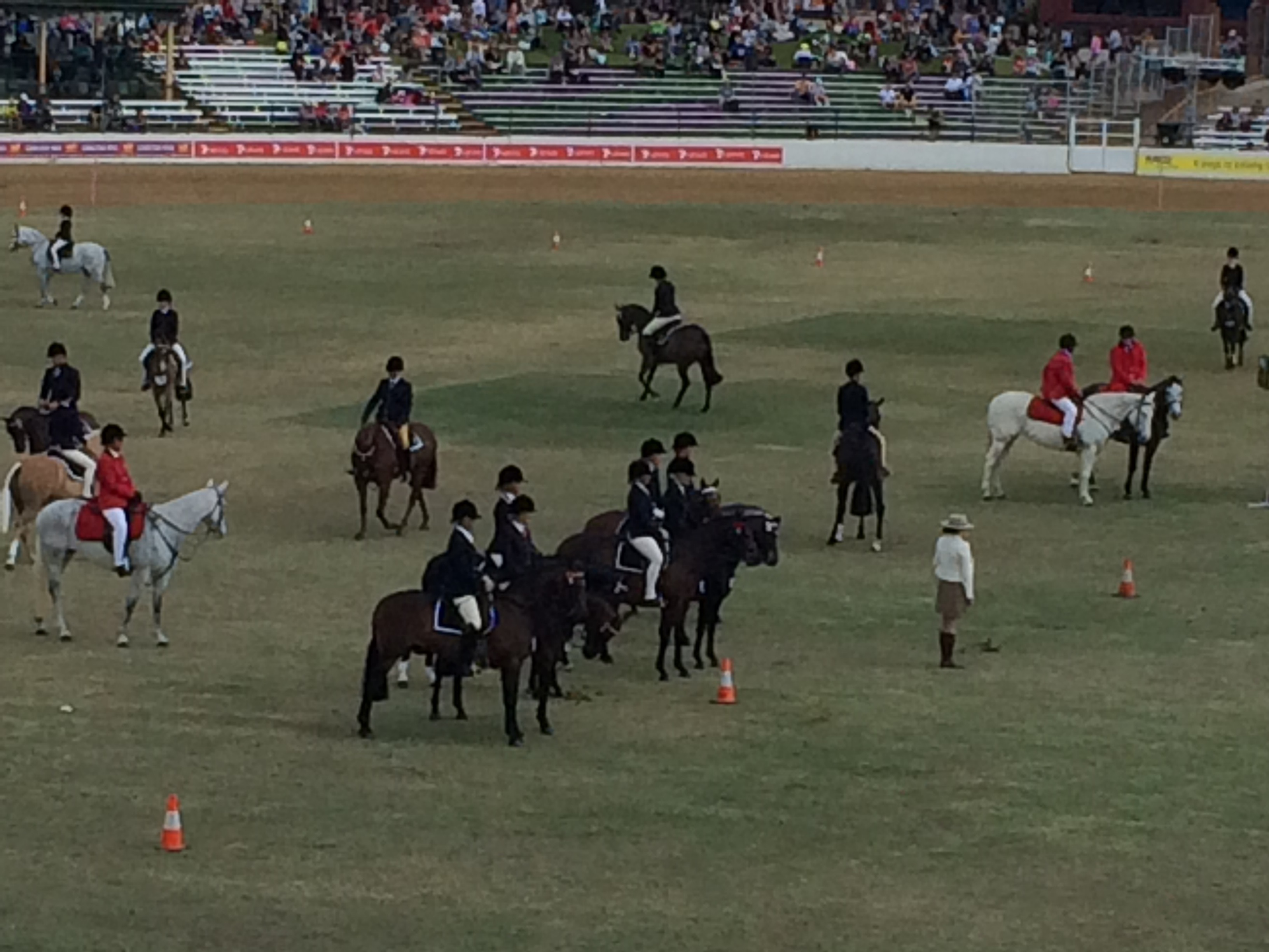 Equestrian competitions, main oval, Ekka, 2015